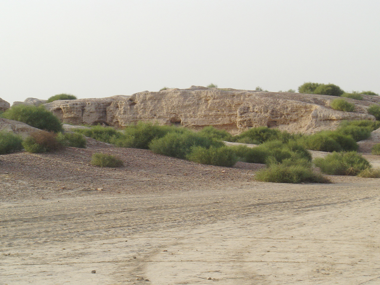 Western mound known as Citadel can be seen here in the ruins of Kalibanga.